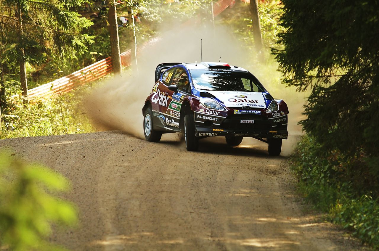 Thierry Neuville at 2nd Ouninpohja stage at 2013 Rally Finland